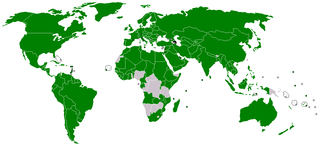 diplomatic relations of Azerbaijan.